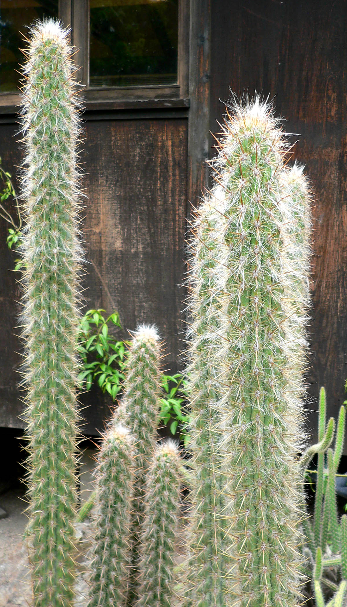 Photo of Oreocereus fossulatus var. rubrispinus at the University of California Botanical Garden